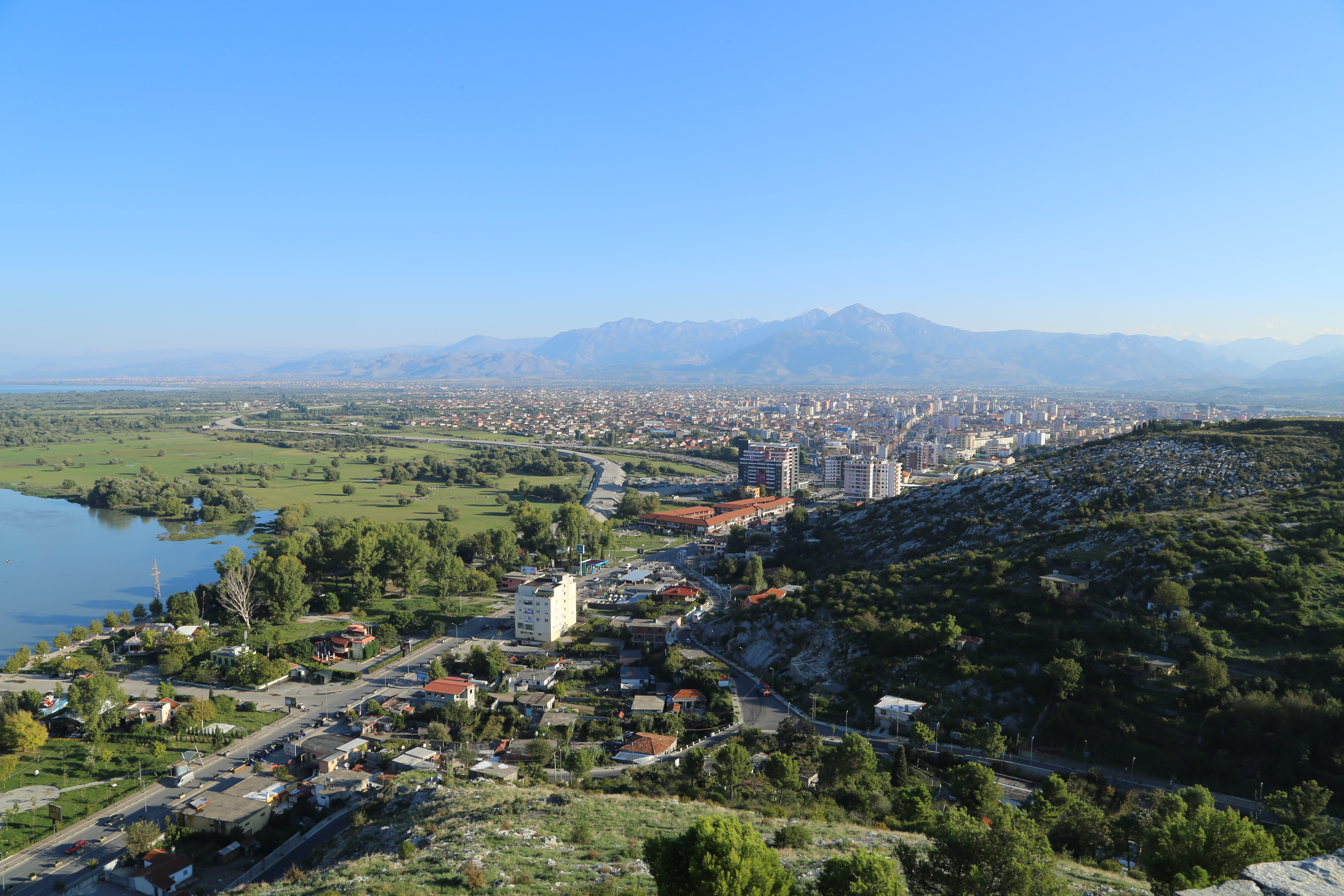 View from Rozafa Castle in Albania